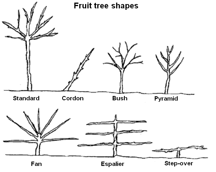 Fruit tree forms